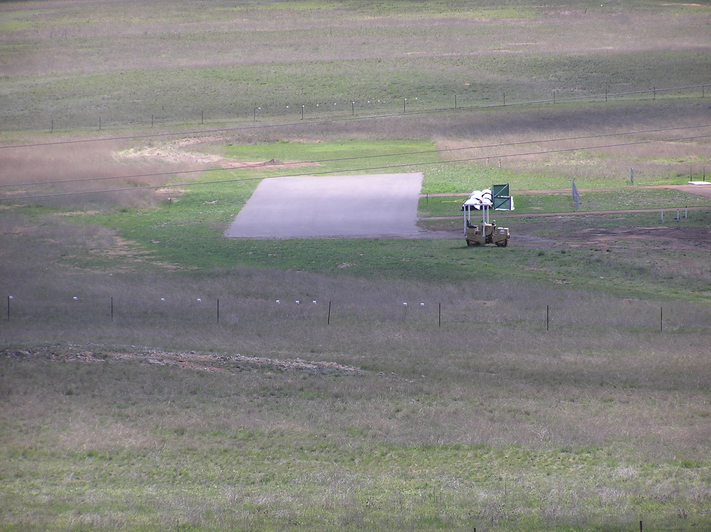 Crace had a model aircraft landing field in 2008. It was called "Crace Grassland Flying Field" and operated by the Belconnen Model Aero Club. Later in the year a synthetic grass runway was installed.